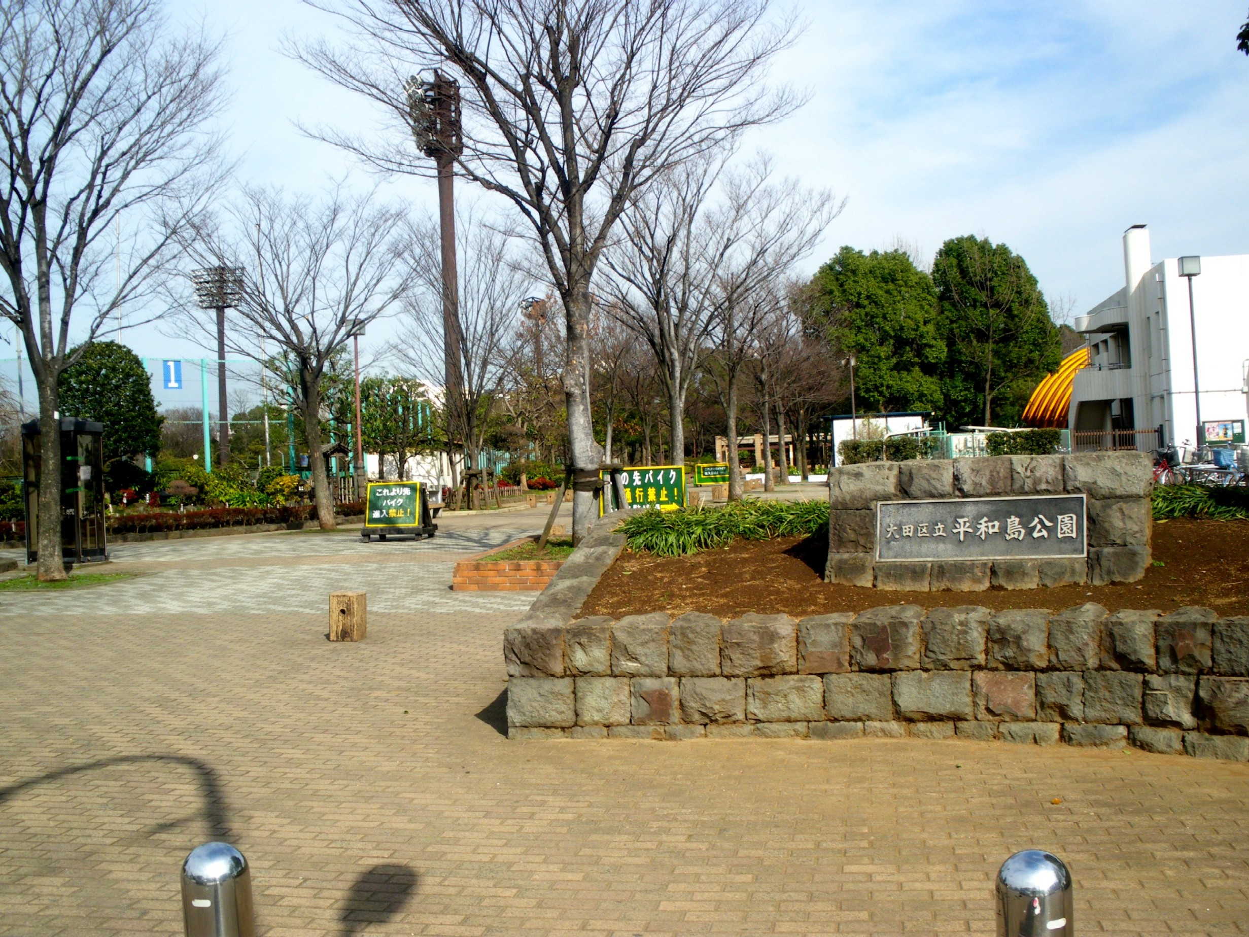 the entrance of Heiwajima Park.